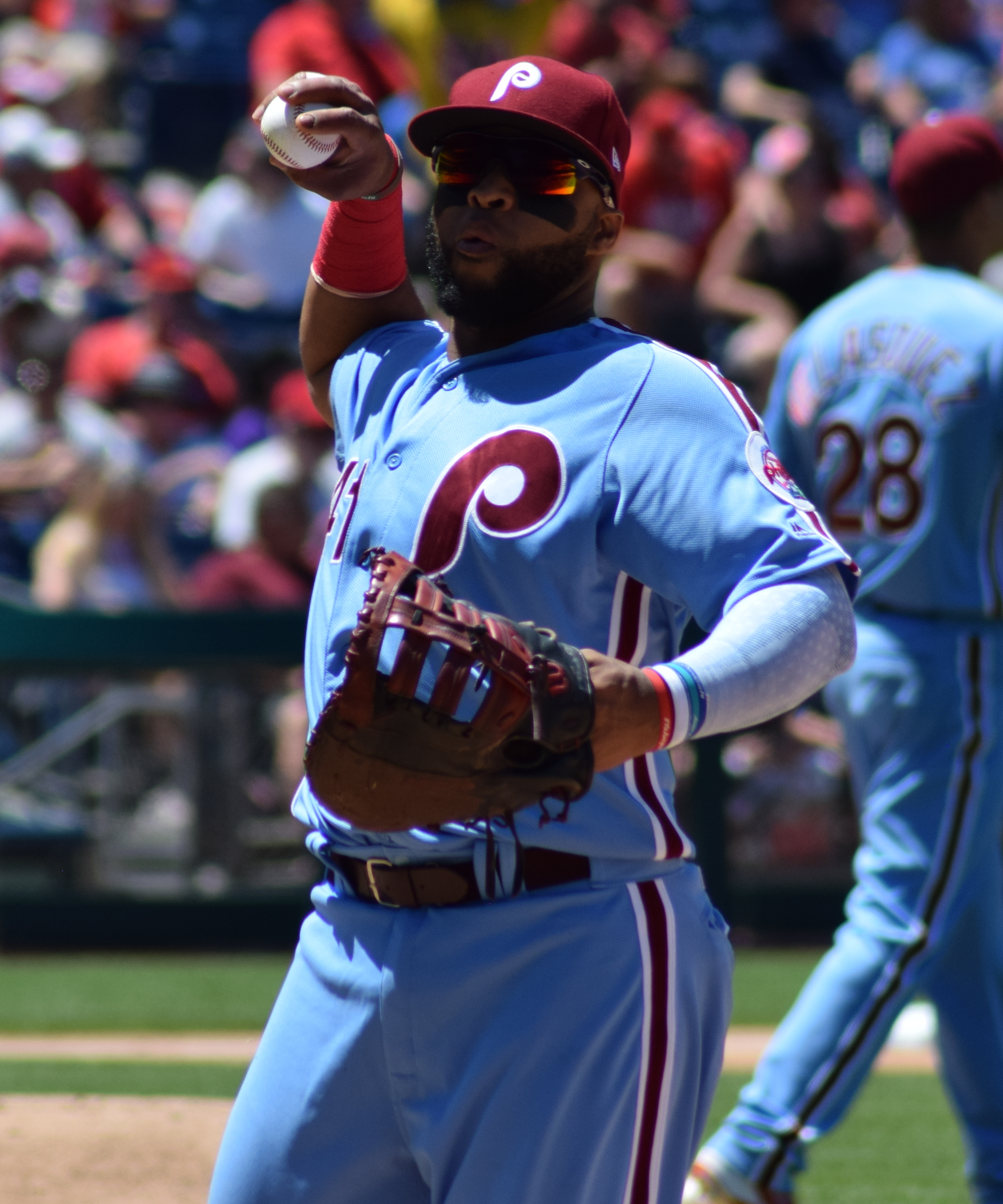 Carlos Santana of the Philadelphia Phillies tosses a ball during a 2018 game at Citizens Bank Park in Philadelphia.